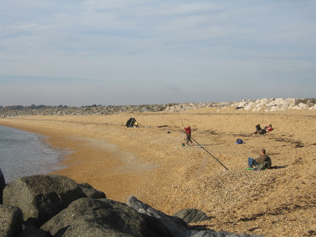 Fishing on Hurst Beach